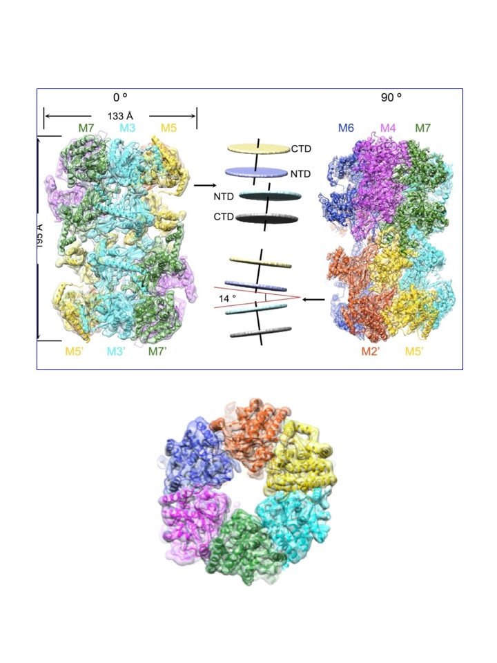 Minichromosome maintenance protein complex: Upon loading onto chromatin, the two Mcm2-7 hexamers form a ring structure arranged in a head-to-head (NTD to NTD) orientation. The two rings are slightly twisted, tilted and off-centred relative each other to form a kink at the interface of the two rings. Top panel, side view. Bottom panel, CTD view.